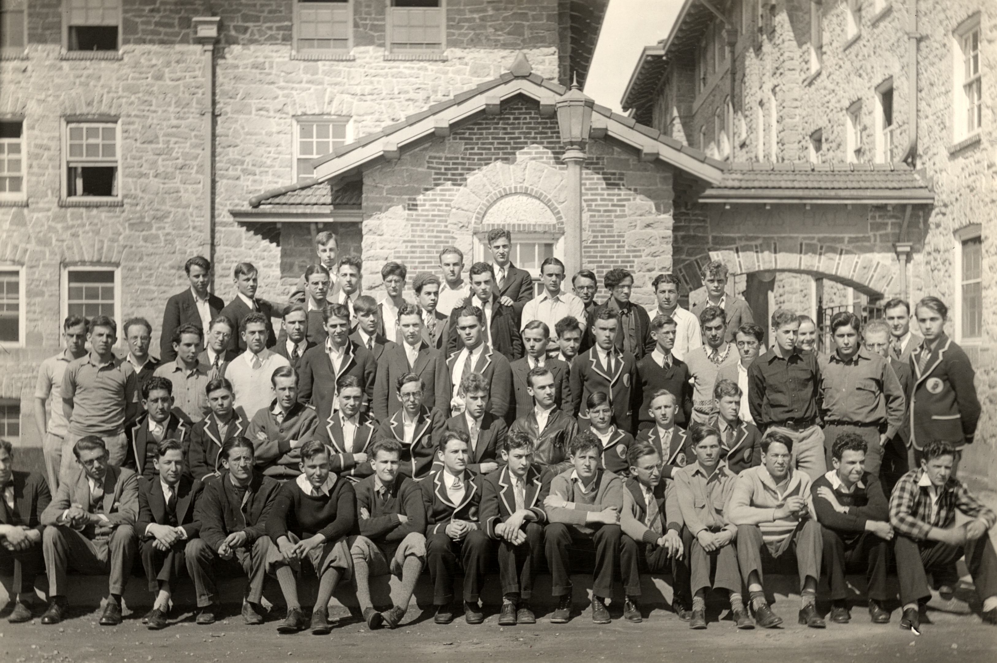 Experimental College group outside Adams Hall. Don't have notes from the UW Archives. Dated as 1930 in Nelson's Education and Democracy. Original file: "S12334.tif"